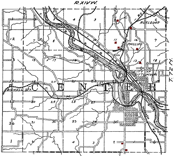 Original caption: "Figure 73. Map showing mines in central Wapello county." The city is Ottumwa. Mines have been tinted red by the uploader. The railroads shown on the map are: CRI&P Chicago Rock Island and Pacific Railroad, CB&Q Chicago Burlington and Quincy Railroad, CM&StP Chicago Milwaukee and St. Paul Railway, and Wabash Wabash Railroad.